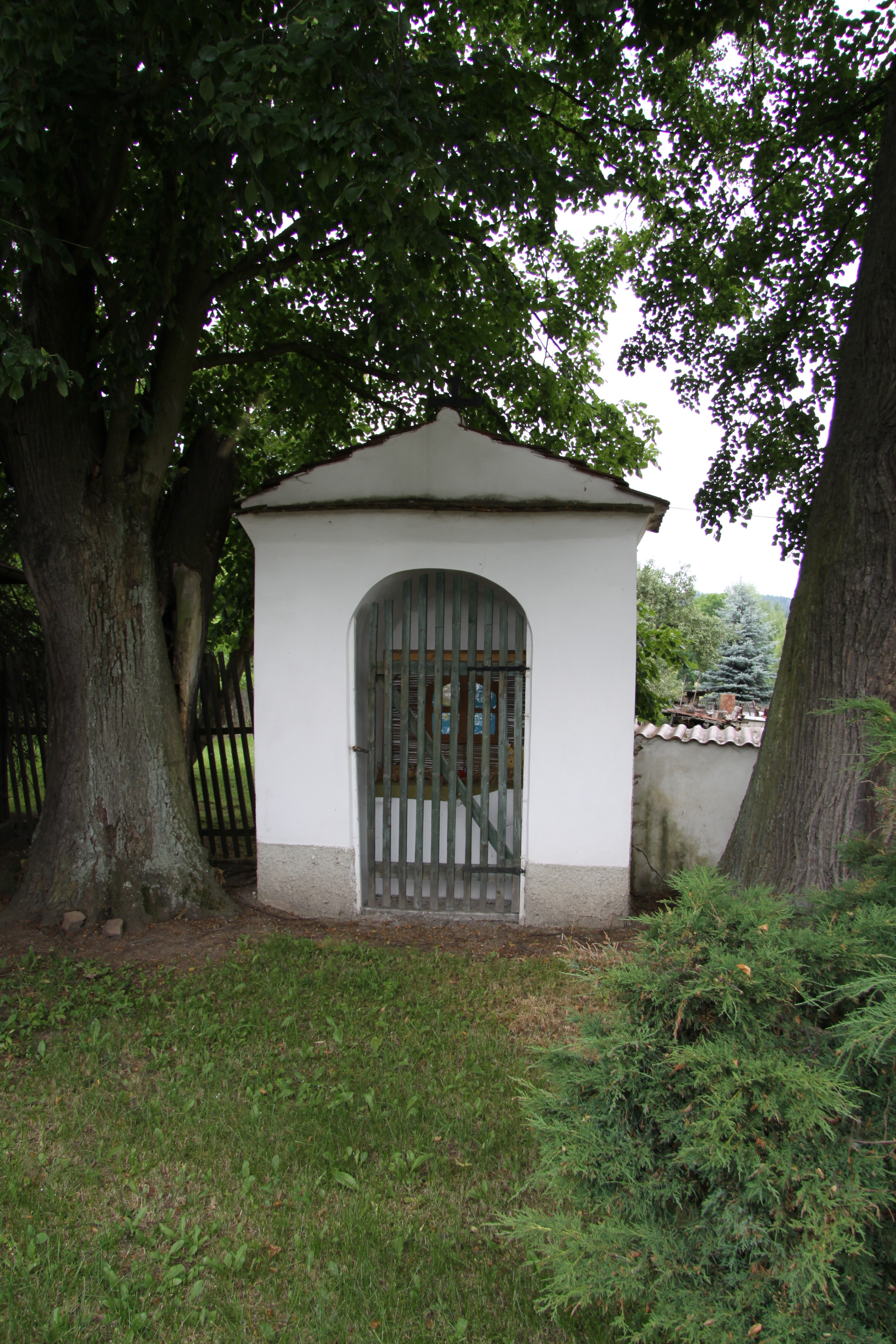 Bratkovice village in Příbram District, Czech Republic.